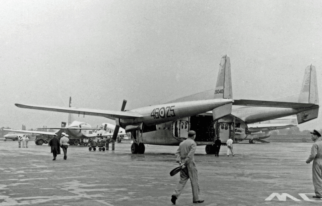 Fairchild C-119G Flying Boxcar 26040 of the 46 Aerobrigata Italian Air Force at Manchester (Ringway) Airport